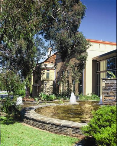 Front of the Burnside Library